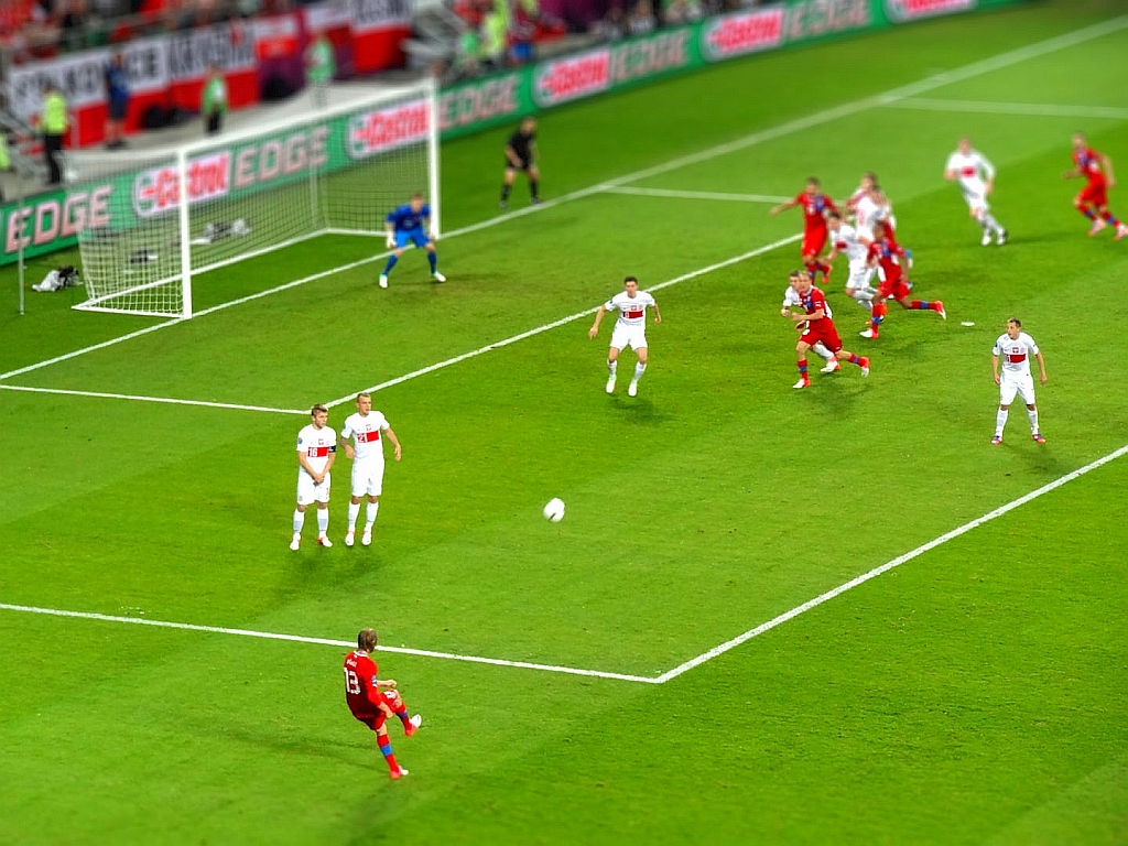 UEFA Euro 2012 group stage match between Czech Republic and Poland that took place in Wrocław. Final score was 1:0 (Jiráček).